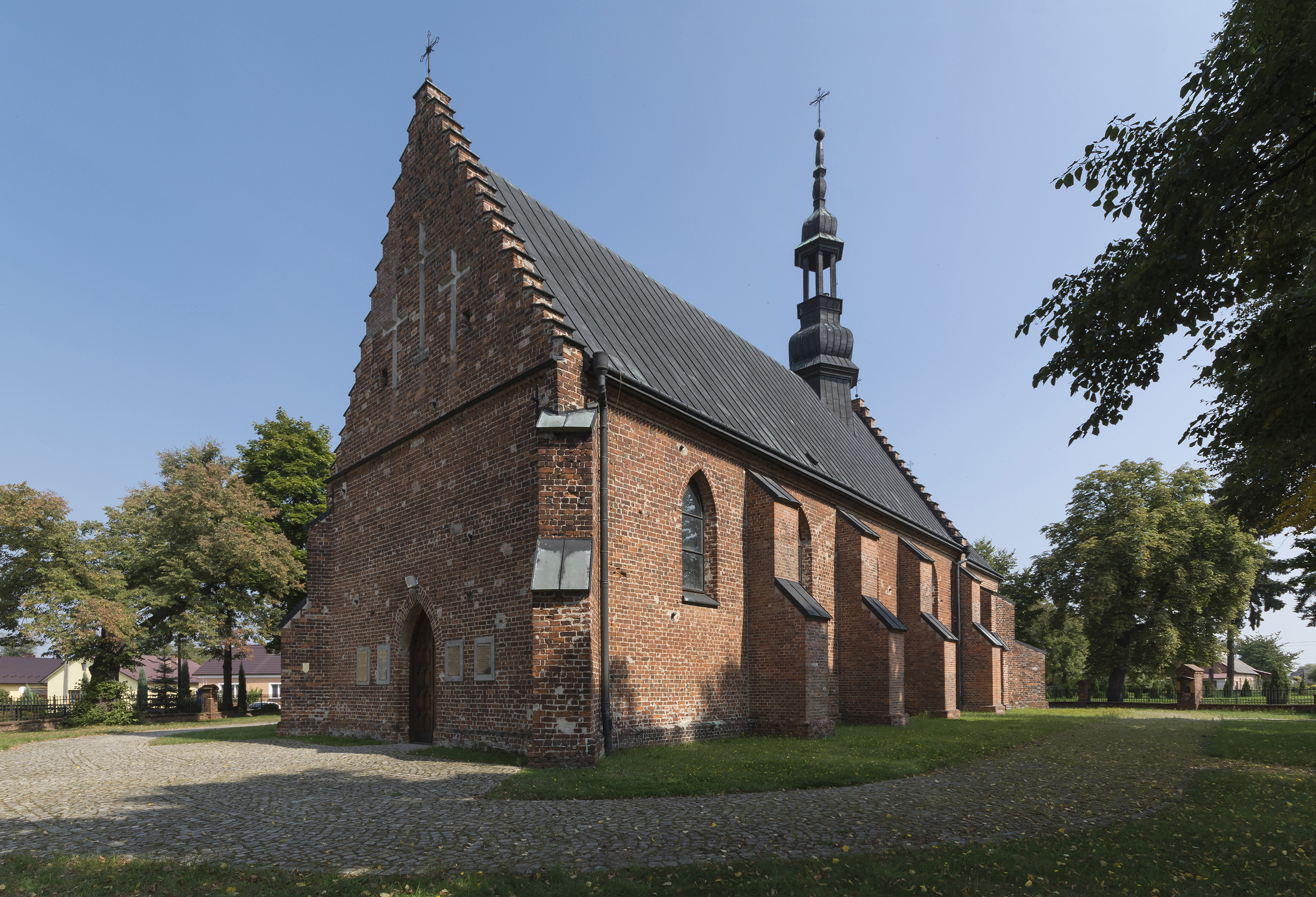 Saint Mary Magdalene church in Tarnobrzeg